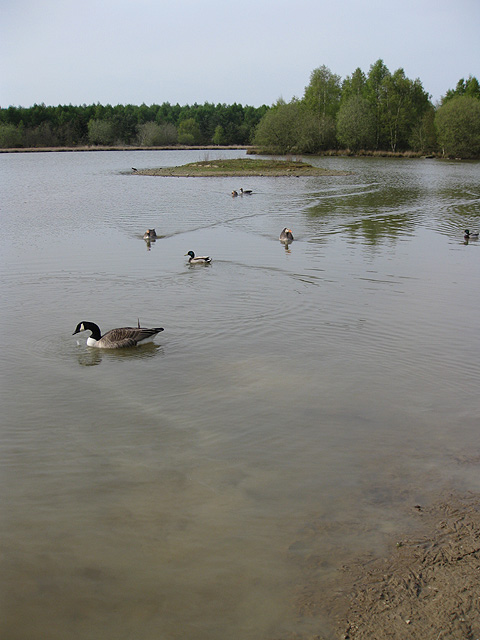 Waterfowl at Woorgreens Lake. Formed from a former open cast coal mine. In evidence today, Canada geese, Mandarin, Mallard, Greylag geese and Pied wagtails.